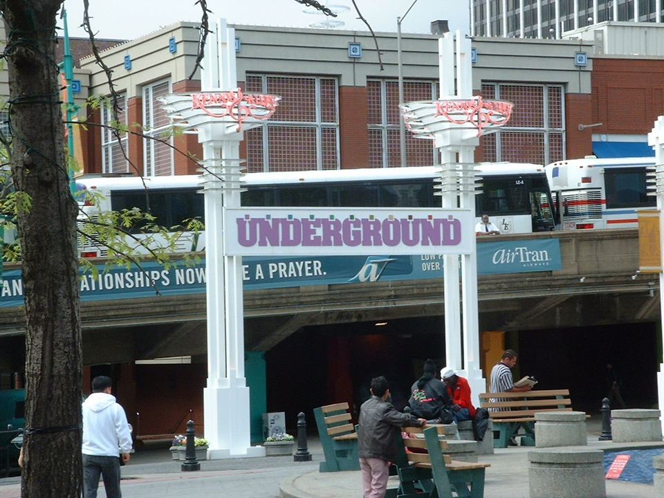 Underground Atlanta entrance picture